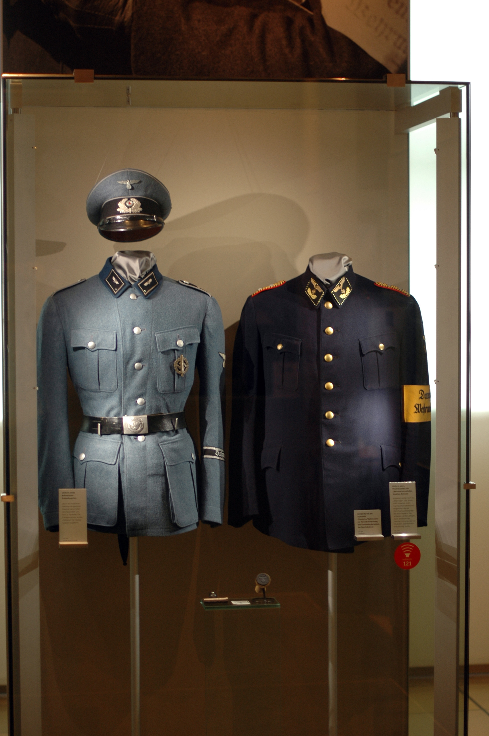 Verkehrsmuseum Nürnberg Legal disclaimer This image shows (or resembles) a symbol that was used by the National Socialist (NSDAP/Nazi) government of Germany or an organization closely associated to it, or another party which has been banned by the Federal Constitutional Court of Germany. The use of insignia of organizations that have been banned in Germany (like the Nazi swastika or the arrow cross) are also illegal in Austria, Hungary, Poland, Czech Republic, France, Brazil, Israel, Ukraine, Russia and other countries, depending on context. In Germany, the applicable law is paragraph 86a of the criminal code (StGB), in Poland – Art. 256 of the criminal code (Dz.U. 1997 nr 88 poz. 553).